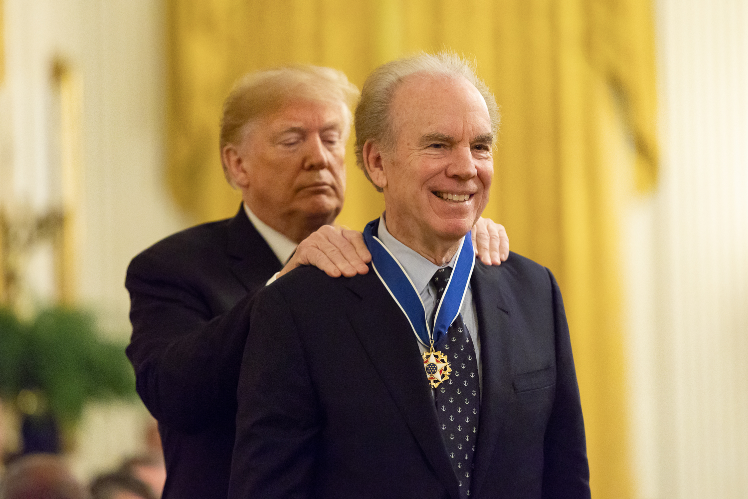 President Donald J. Trump presents the Medal of Free Friday, Nov. 16, 2018, in the East Room of the White House. (Official White House Photo by Andrea Hanks)